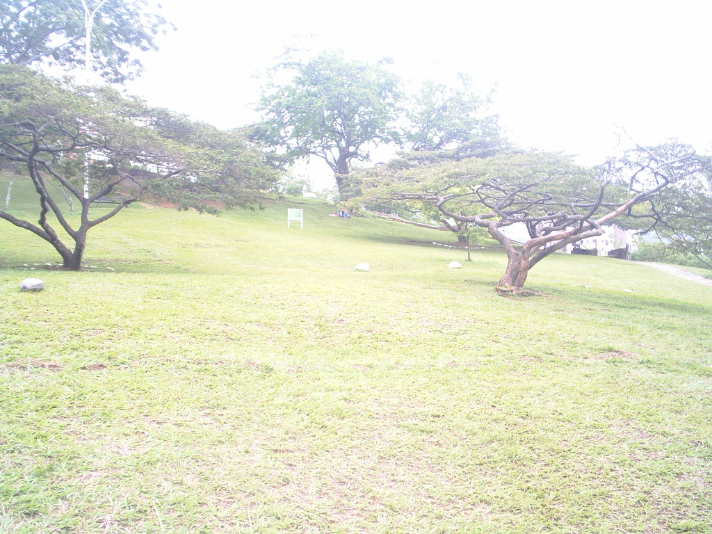 San Antonio Hill